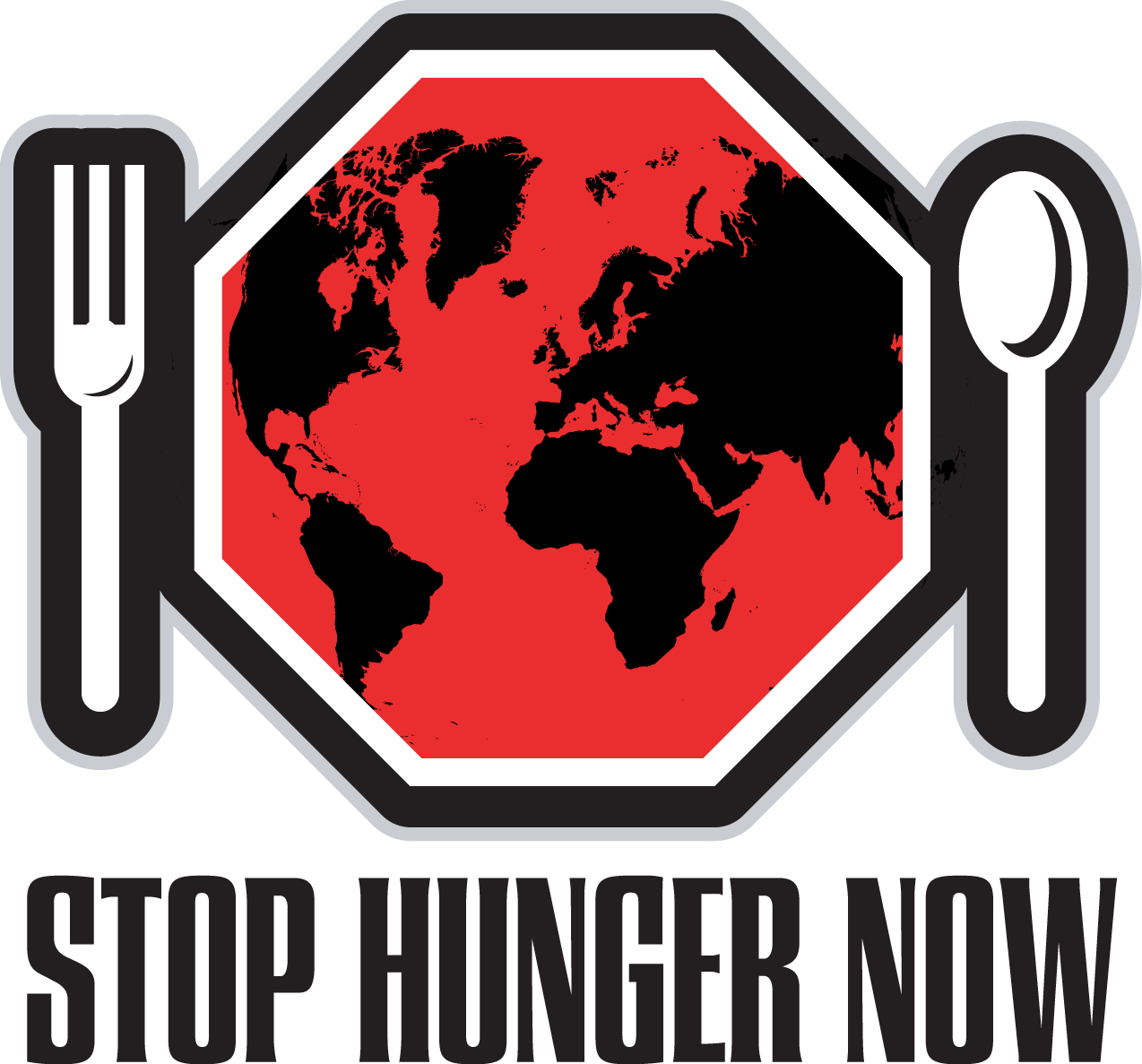 Stop Hunger Now